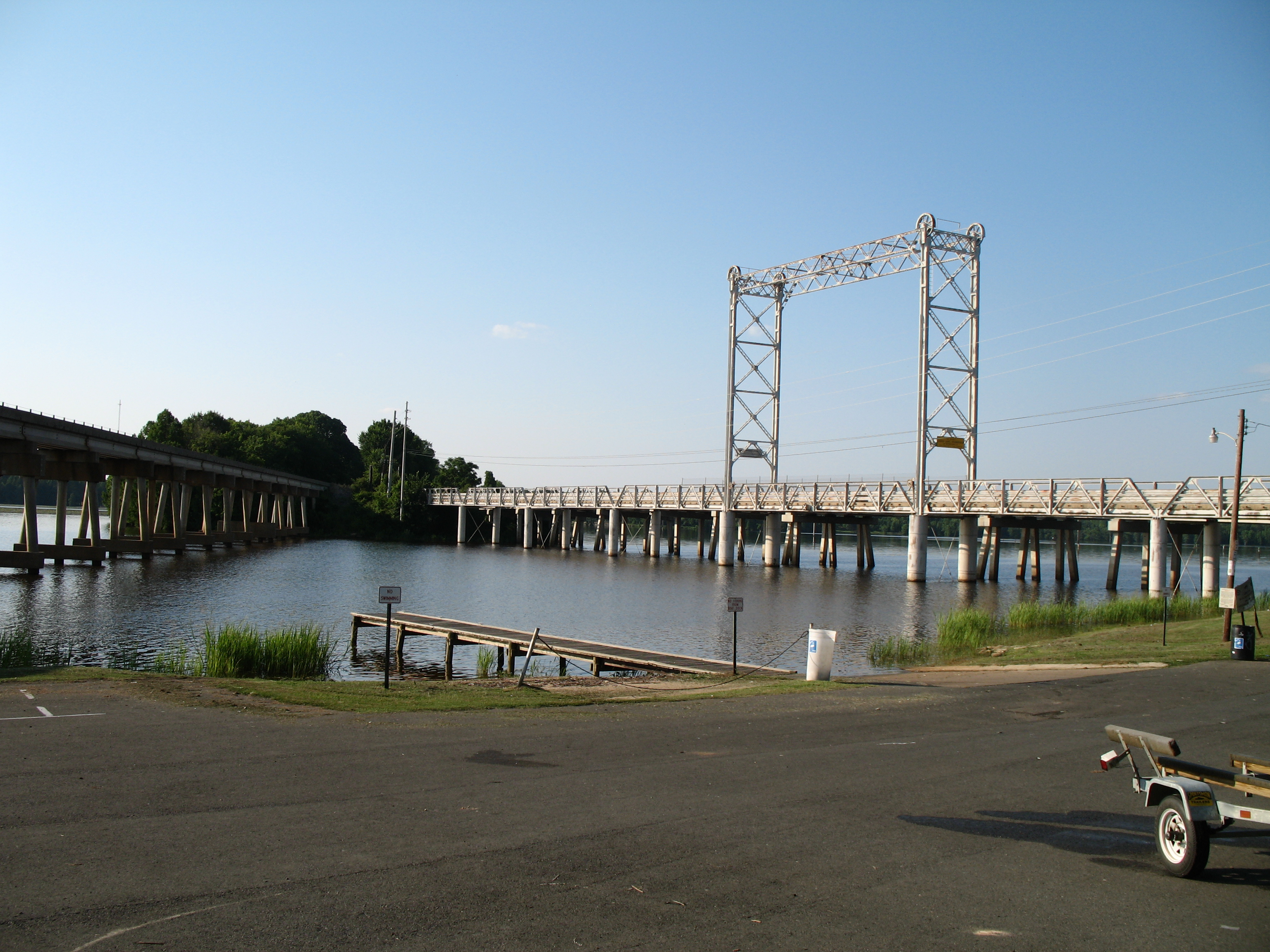 The Caddo Lake Drawbridge, in Mooringsport, Louisiana, is a 1914-built former-vertical-lift bridge. The lift span's counterweights were removed in the 1940s, and the lift span has been fixed in place since then. The bridge was added to the U.S. National Register of Historic Places in 1996.